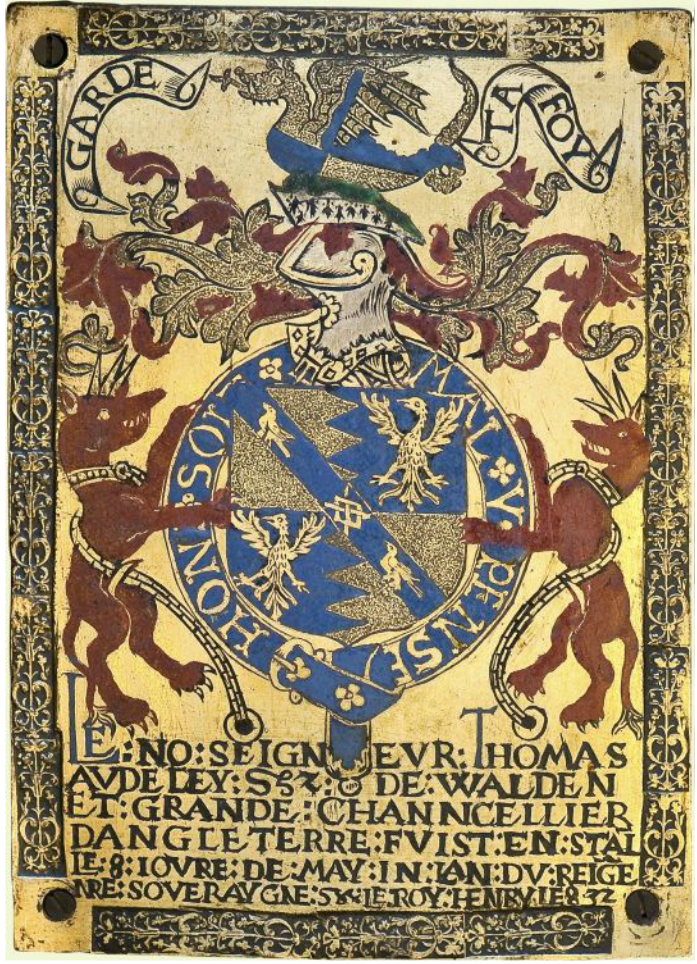 Garter stall plate in St George's Chapel, Windsor Castle, of Thomas Audley, 1st Baron Audley of Walden (c.1488-1544), KG, Lord Chancellor of England. Arms of Audley: Quarterly per pale indented or and azure, in the 2nd and 3rd an eagle displayed of the 1st on a bend of the 2nd a fret between two martlets of the first (Ashmole, Elias, History of the Most Noble Order of the Garter, London, 1715, p.525, no.304)[1]). Crest above: Garde Ta Foy ("Keep your faith"). Inscription: Le no(ble) Seigneur Thomas Audeley de Walden et Grande Channcellier d'Angleterre fuist enstallé 8 joure de May in l'an du reig(n)e n (ot)re soveraygne le Roy Henry le 8 32 ("The noble lord Thomas Audley of Walden and Grand Chancellor of England was installed on the 8th day of May in the 32nd year of the reign of our noble sovereign King Henry the Eighth"). The crest: On a chapeau vert turned-up ermine, a wyvern rising quarterly azure and or holding in his mouth a cross. Supporters: Two heraldic antelopes gules gorged and chained or. The shield is circumscribed by the Garter. The border of the plate displays Rennaissance grotto-esque motifs.